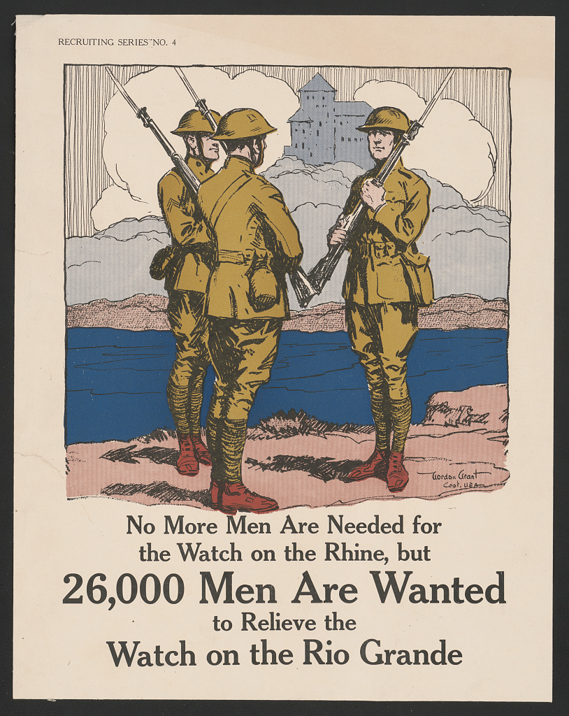 Title: No more men are needed for the watch on the Rhine, but 26,000 men are wanted to relieve the watch on the Rio Grande / Gordon Grant Capt. U.S.A. Abstract/medium: 1 photomechanical print (poster) : offset, color ; 36 x 28 cm.